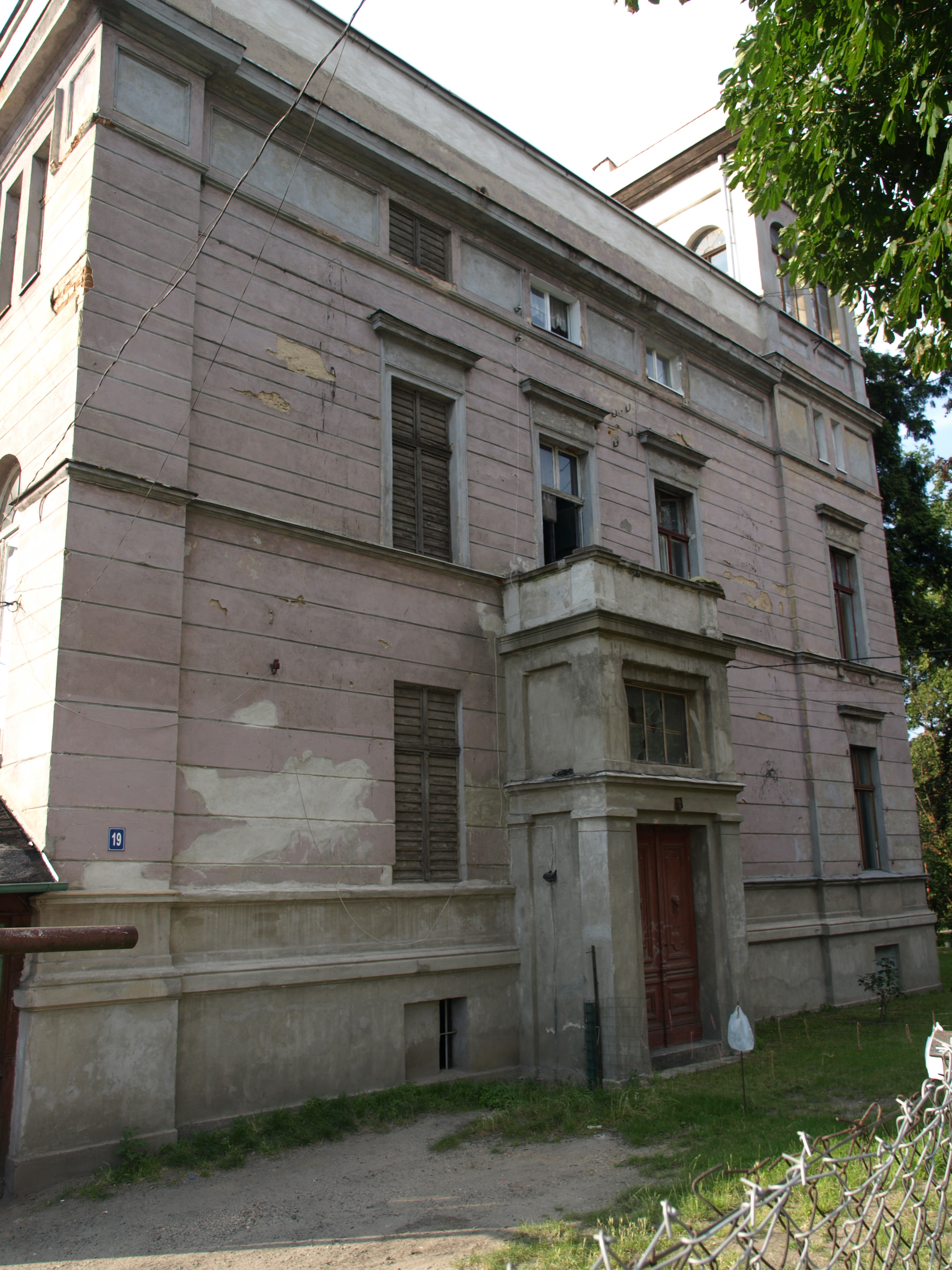 Former Manfred von Richthoffen's house in Świdnica, Poland